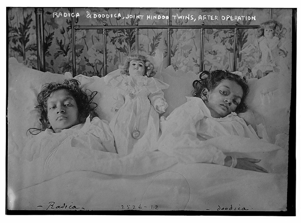 Title: Radica & Doodica, Joint Hindoo twins after operation Abstract/medium: 1 negative : glass ; 5 x 7 in. or smaller.